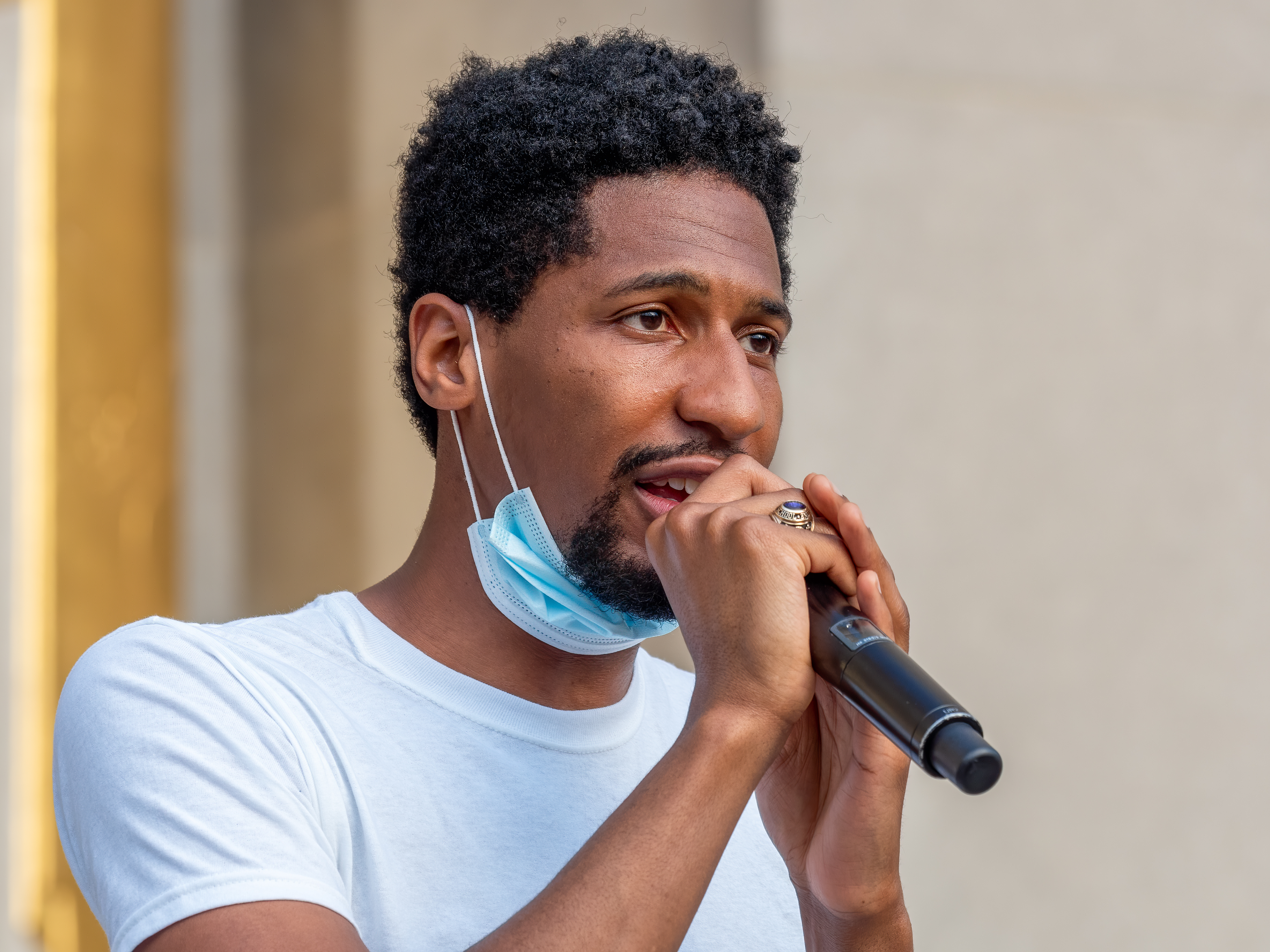 Musicians Jon Batiste and Matthew Whitaker playing piano and melodica for a "Juneteenth celebration + voter registration recital" called "We Are" on June 19, 2020. On the steps of the Brooklyn Public Library in Grand Army Plaza.